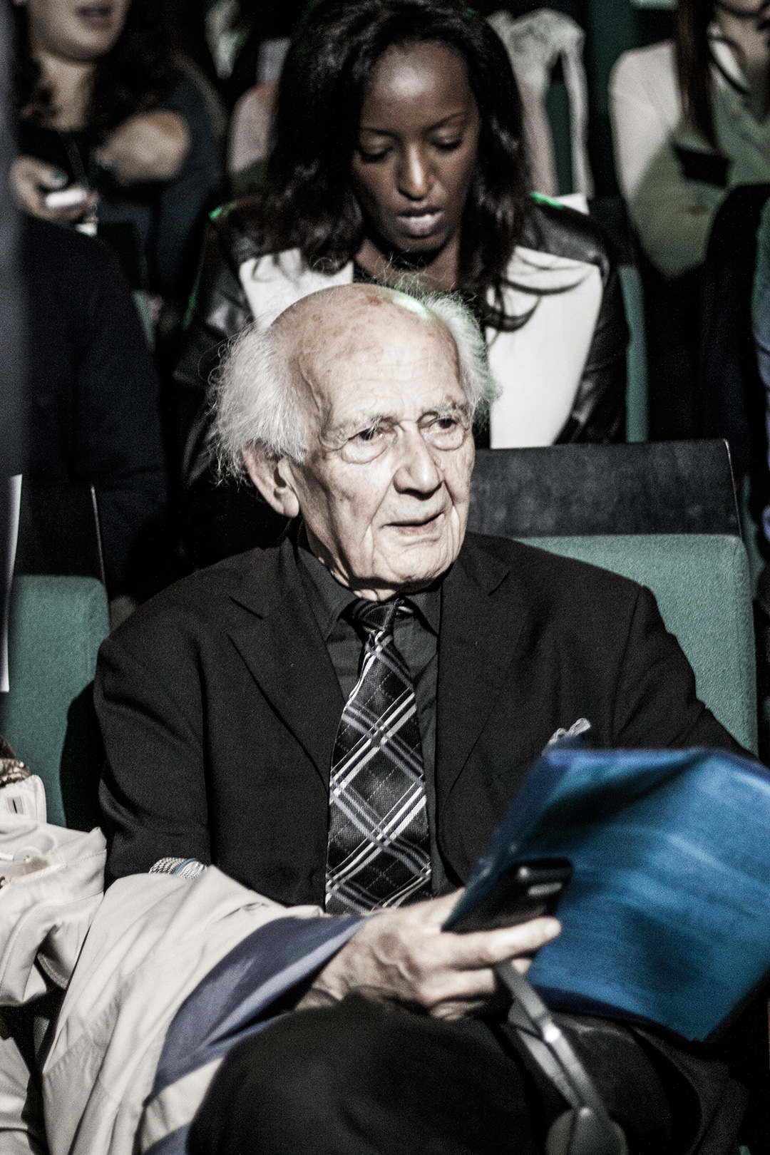 Polish philosopher Zygmunt Bauman in Teatro Dal Verme (Milan, Italy).